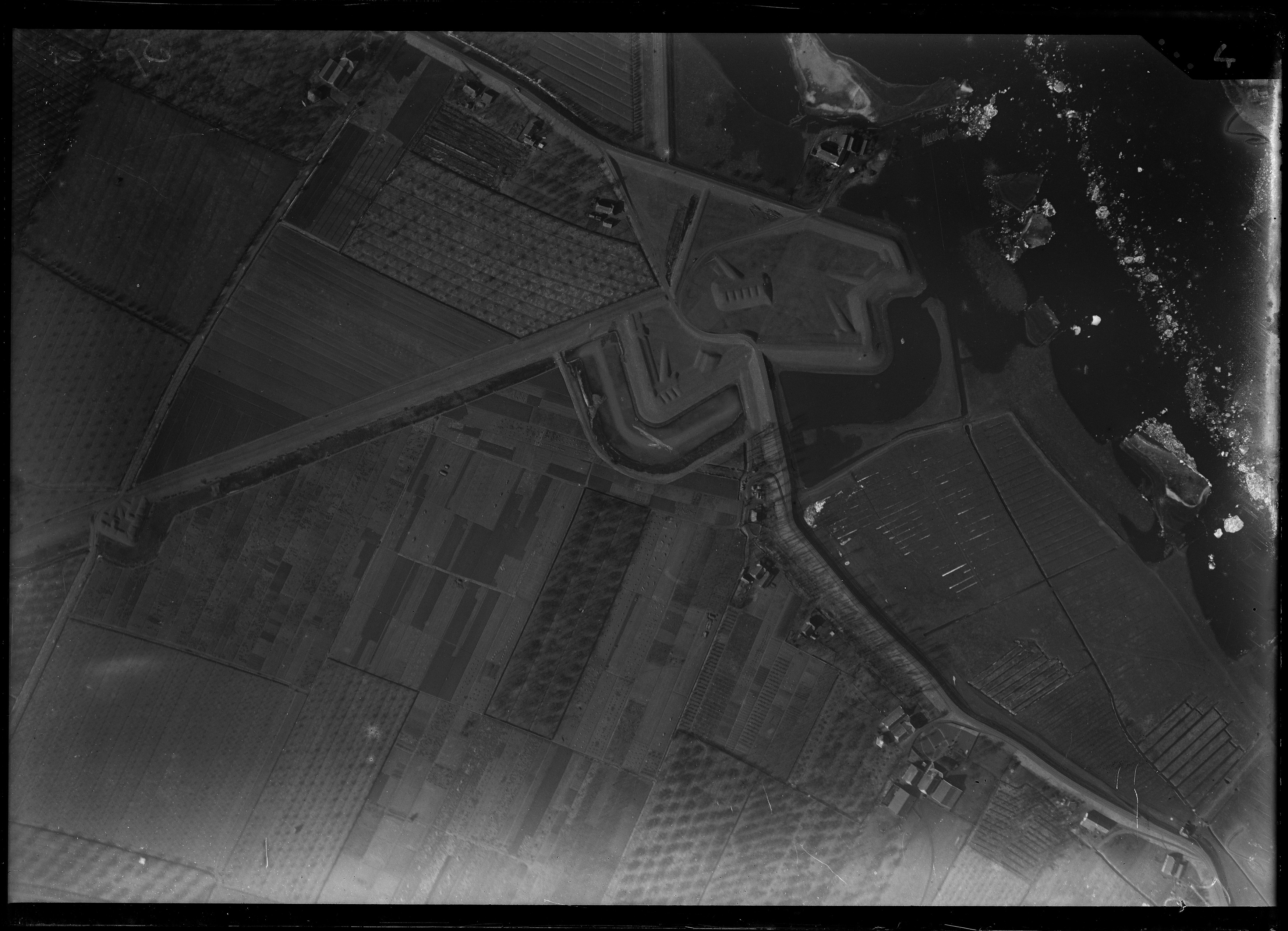 Aerial photograph of Fort De Spees also called Hoornwerk aan de Spees or Werk aan de Spees), Rijndijk (Bandijk), Opheusden, The Netherlands. The fortification is a part of the extended Grebbelinie/Betuwelinie Ochten-De Spees, constructed in 1799.